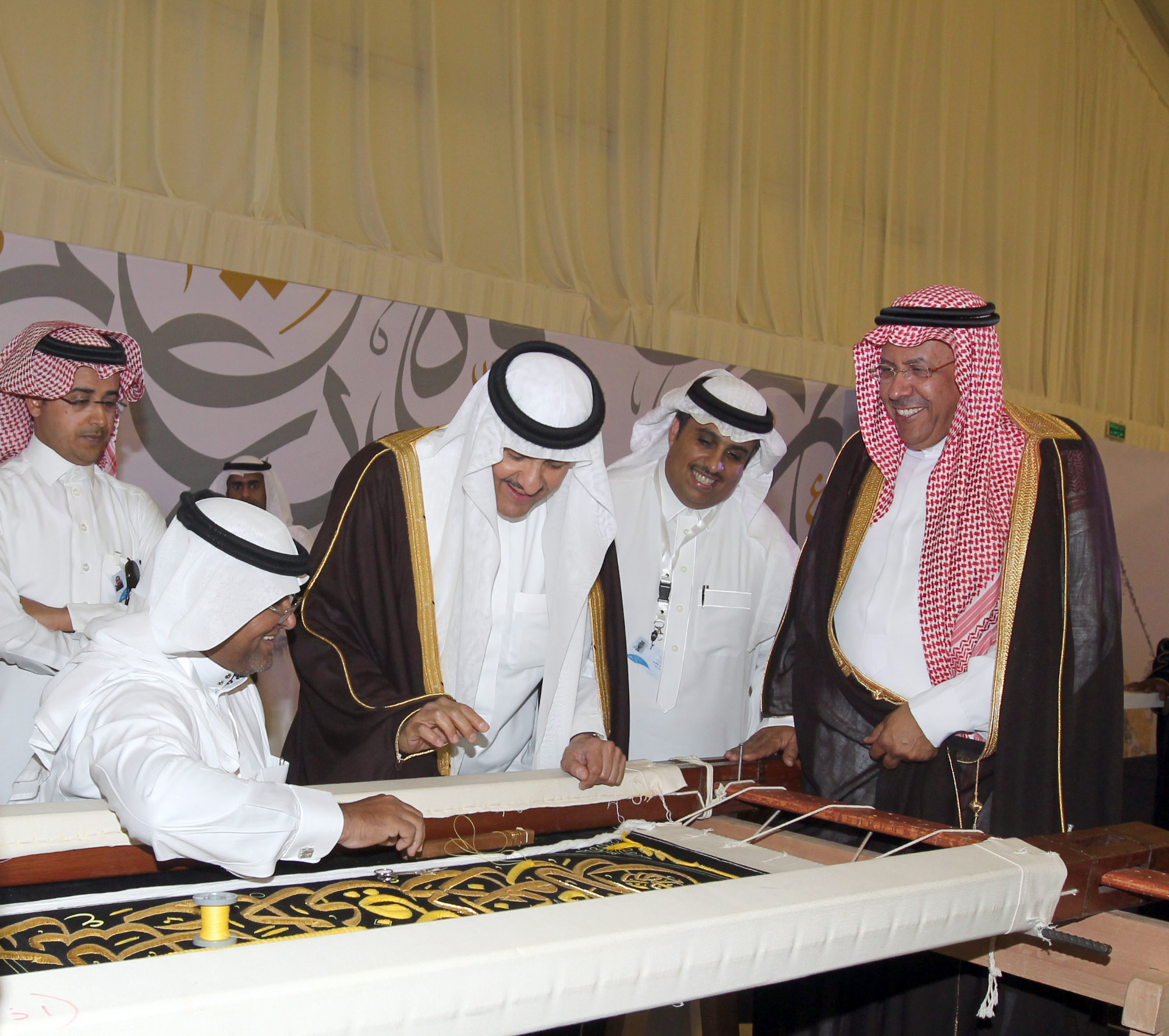 برنامج أرامكو السعودية الثقافي 2012